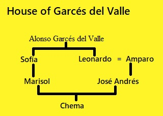 The family tree of the House of Garcés del Valle (a fictional family from the TV series Marisol). This telenovela was made in 1996.